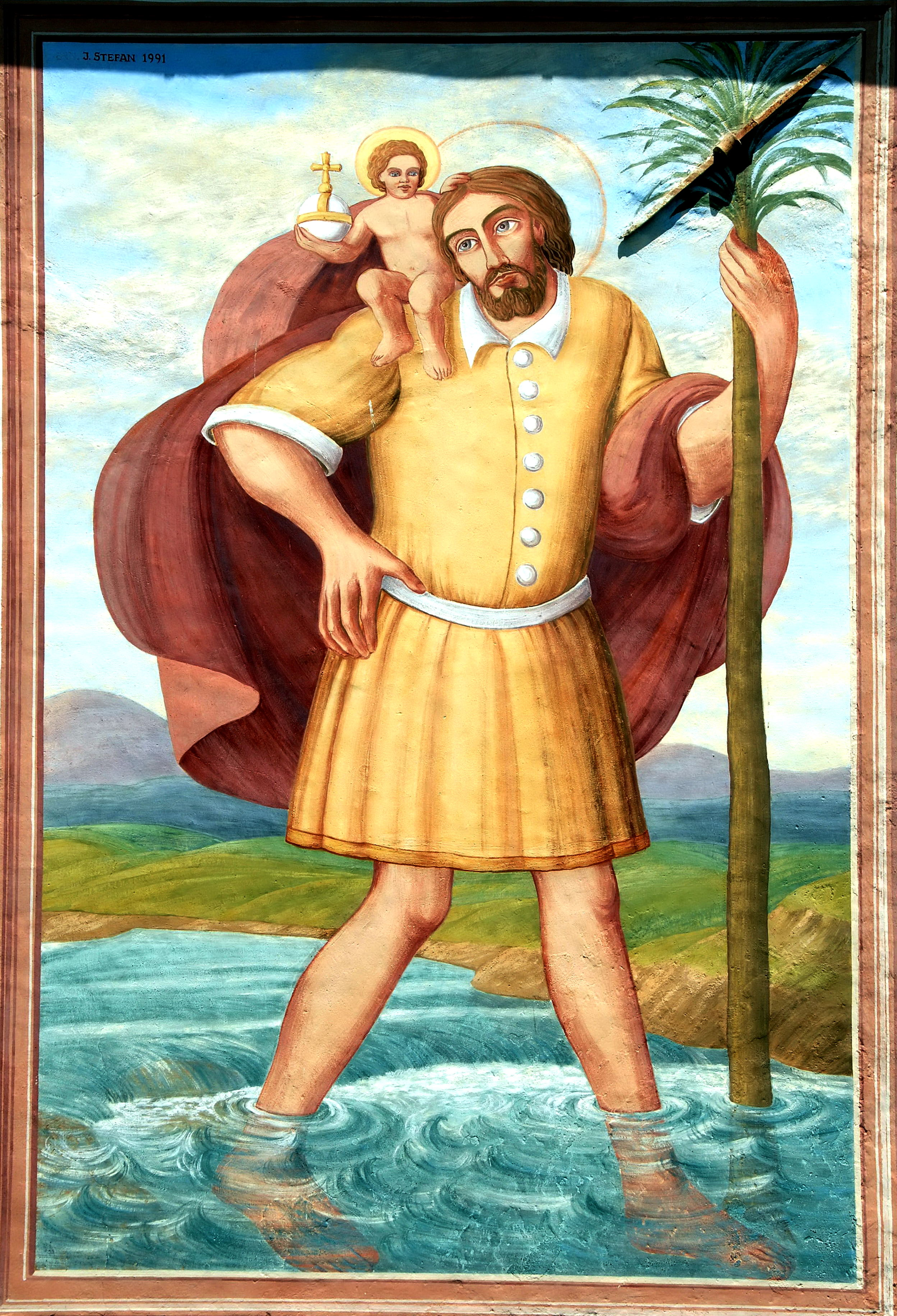 Christopherus fresco on the southern wall of the parish church Saint Leonard in Abtei, municipality Gallizien, district Völkermarkt, Carinthia, Austria, EU